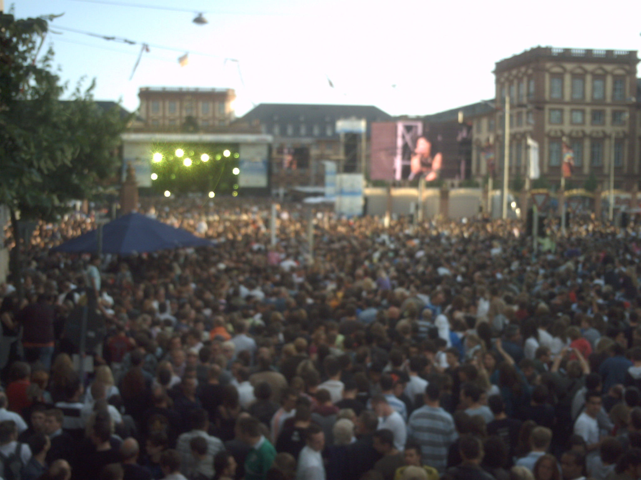 Arena of Pop, 2009